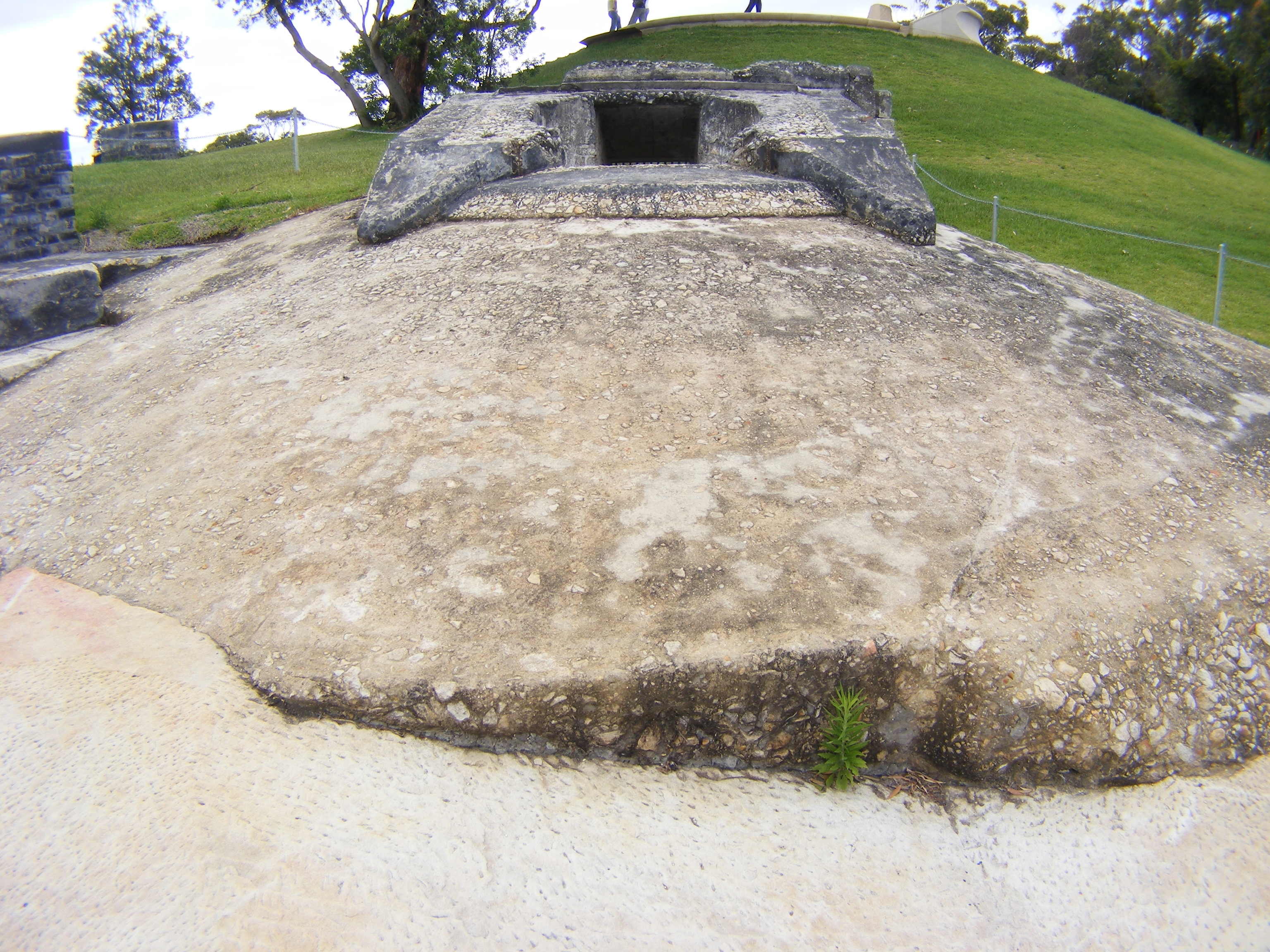 Sydney Harbour Defences. Inside a fort in Sydney Harbour. This is the Georges Head fort. A depression range finding station behind the gun emplacements at Georges Heights.